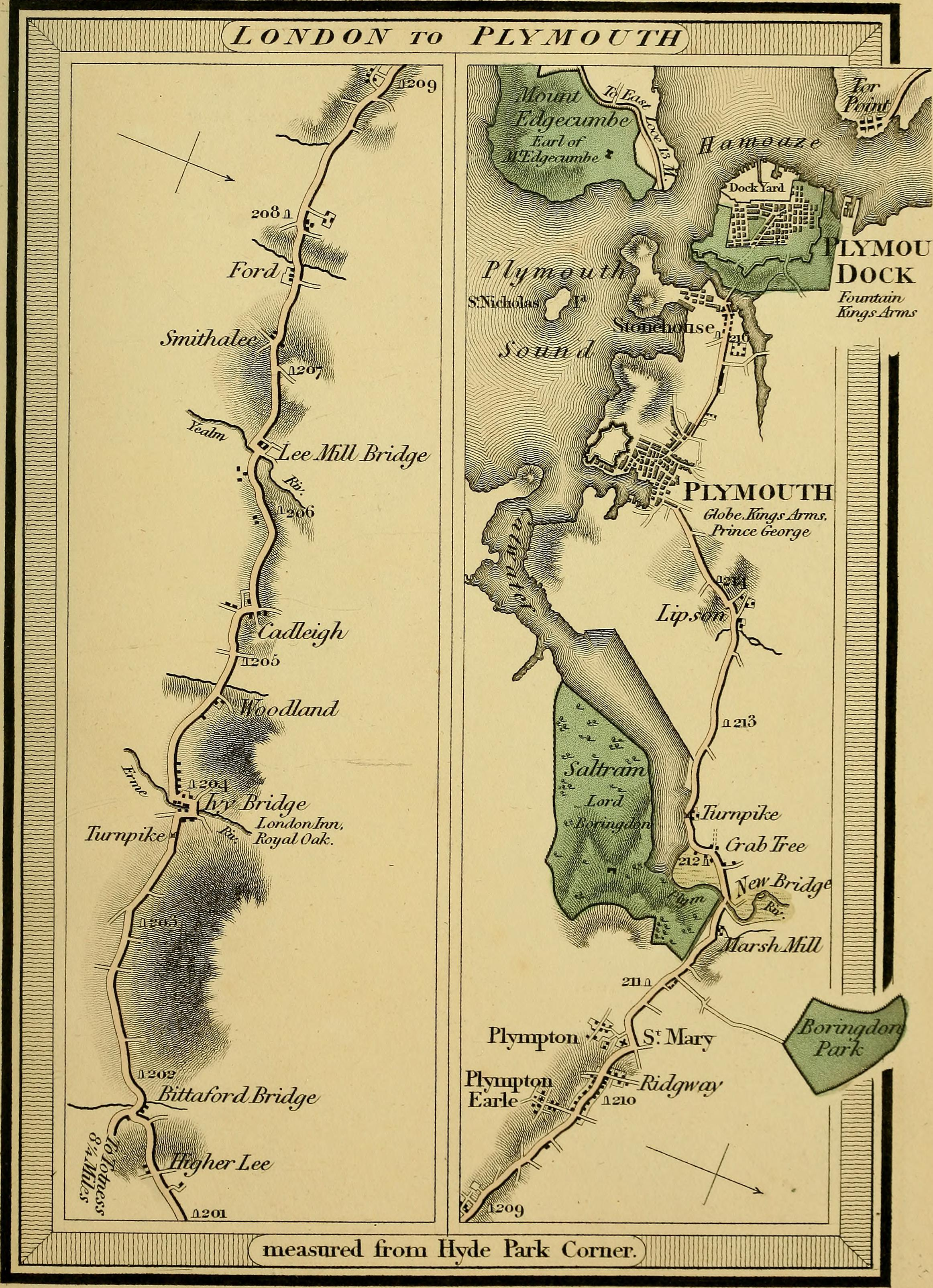 Identifier: surveyofhighroad00mogg Title: Survey of the high roads of England and Wales : part the first comprising the counties of Kent, Surrey, Sussex [etc., planned on a scale of one inch to the mile ... accompanied by indexes, topographic and descriptive ..] Year: 1817 (1810s) Authors: Mogg, Edward Subjects: Roads Publisher: London : published by Edward Mogg, No.51, Charing Cross Text Appearing Before Image: .yiviouthDock . Text Appearing After Image: 123 124